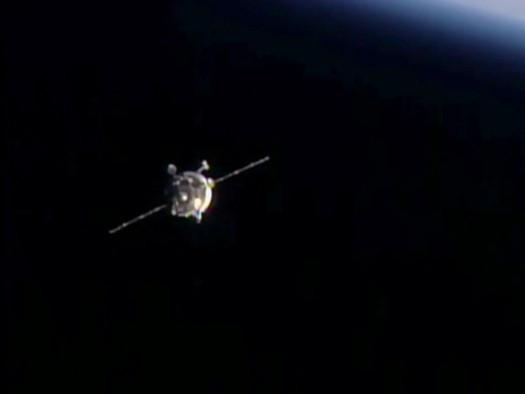 An unmanned Russian Progress M-29M has successfully docked to the International Space Station just over 6 hours after launching on a rocket from Baikonur in Kazakhstan. The craft carries cargo and supplies for the Expedition 45 crew.